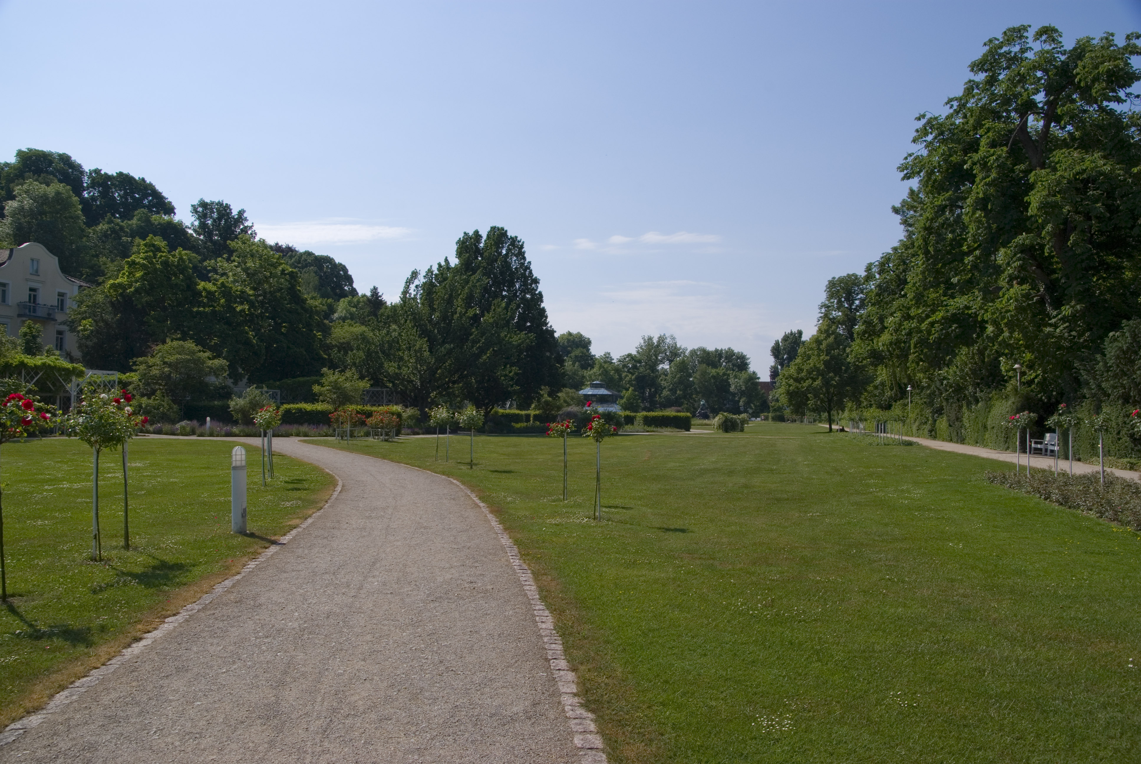 rosarium in Coburg, Germany.